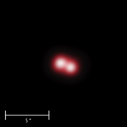 This graphic shows motion of the neutron star RX J0822-4300 from the Puppis A supernova event.